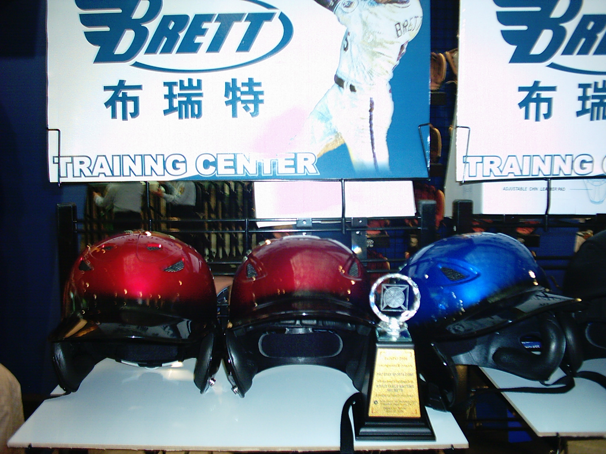 Brett baseball helmet made by Pro Star Sports won the 2006 TaiSPO Awards of Excellence.